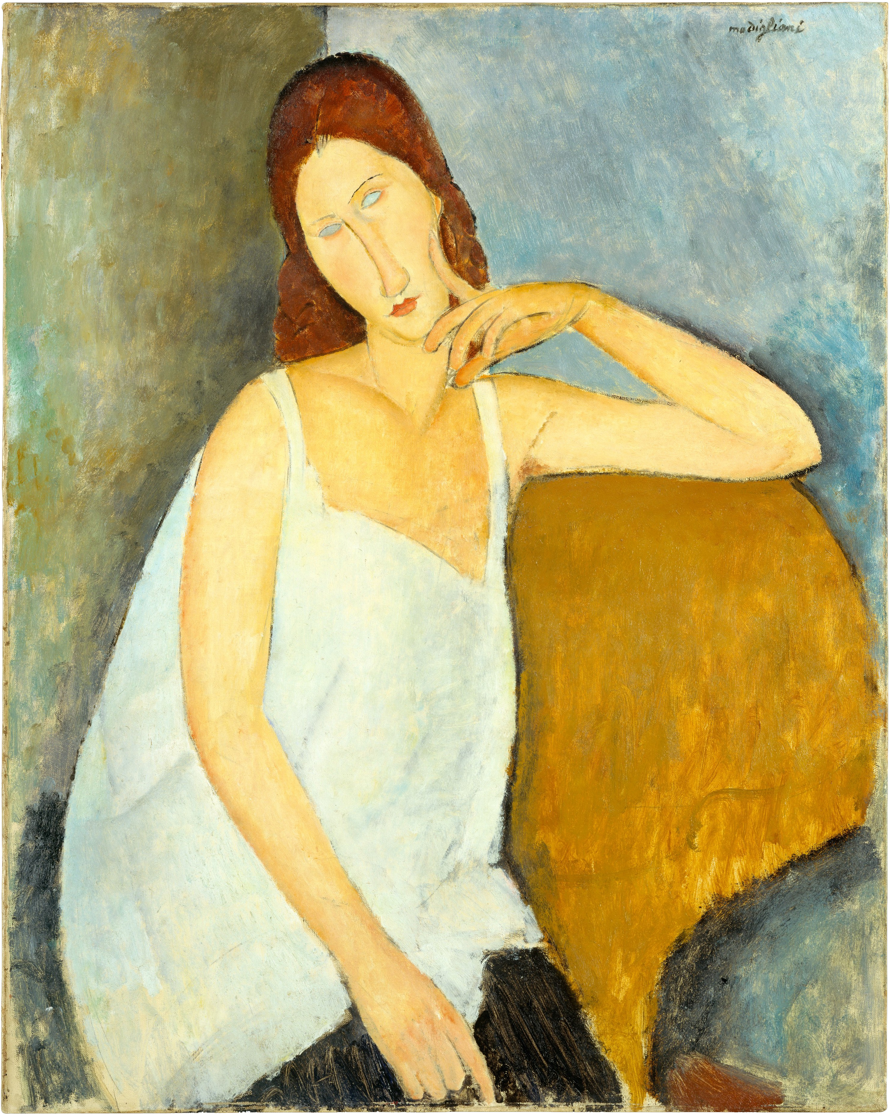 Common-Law Wife of Amedeo Modigliani.